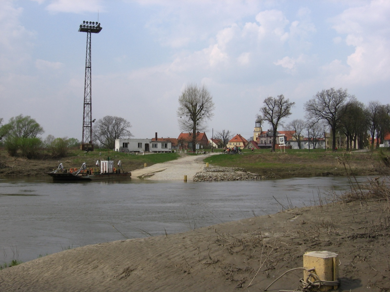 Small ferry over Oder River, view from left rivershore in direction of town Brzeg Dolny, Poland (Lower Silesia)